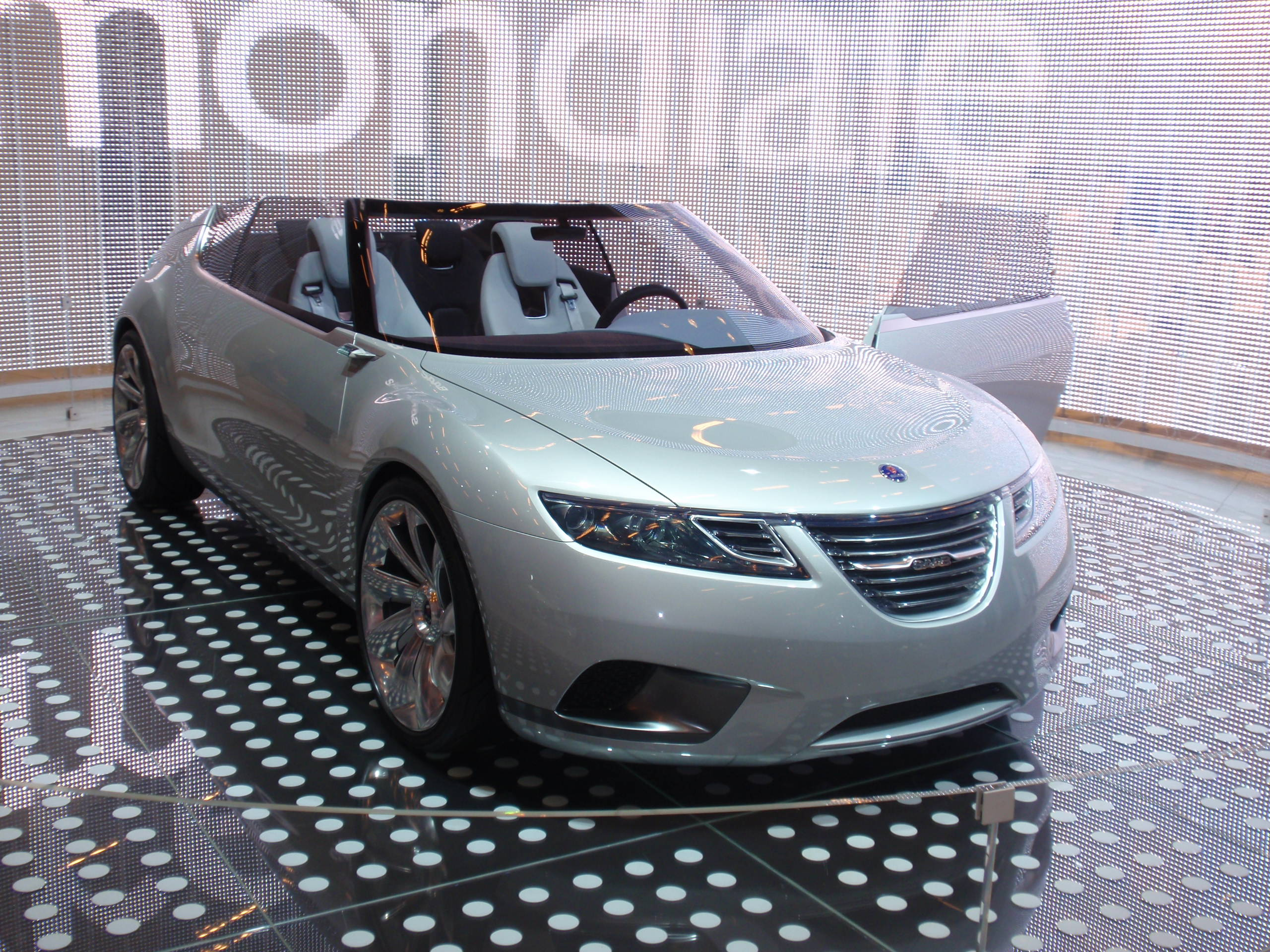 Saab 9-X Air at the 2008 Paris Motor Show